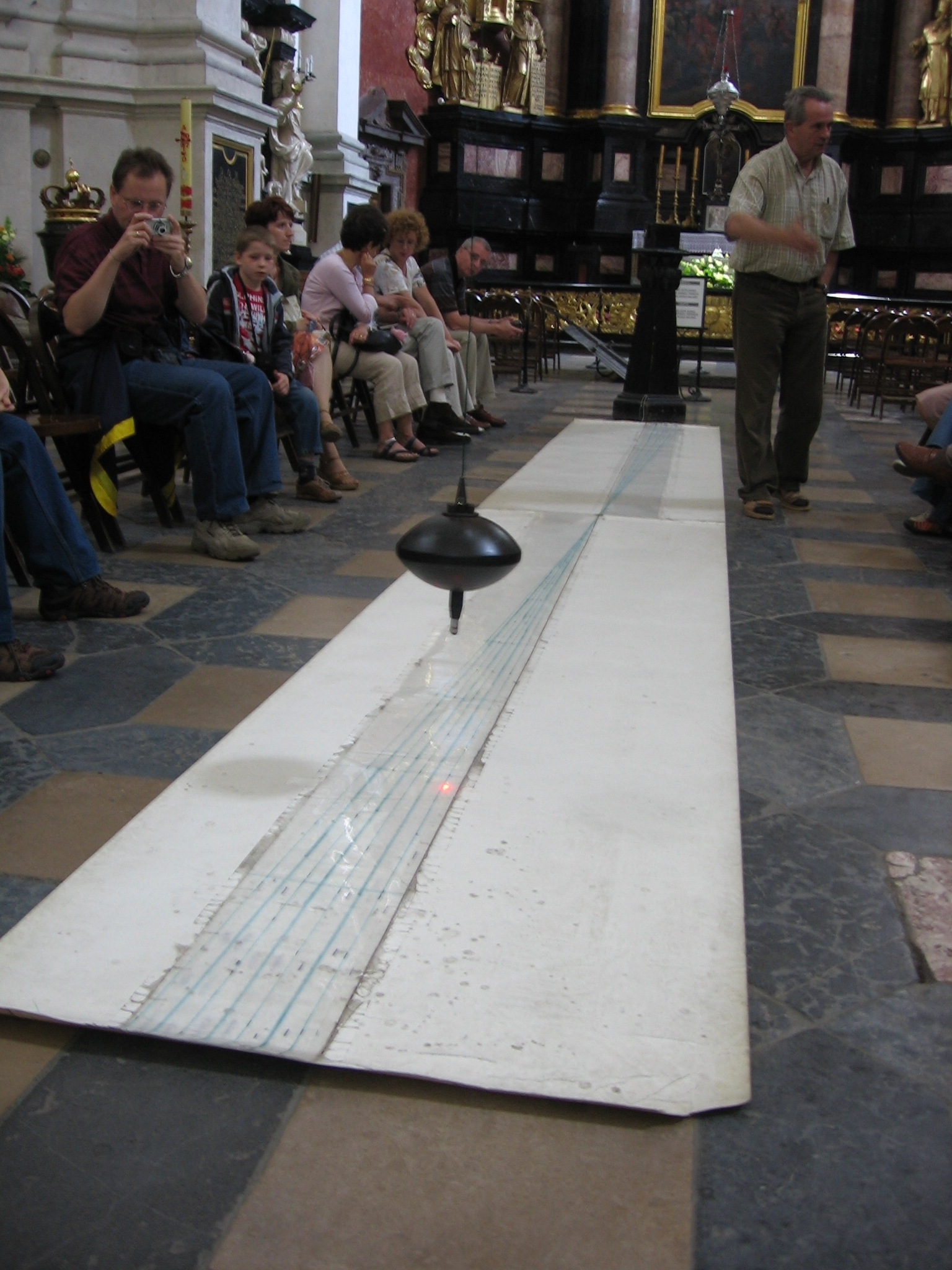 Foucault pendulum in Kraków St. Peter & Paul church